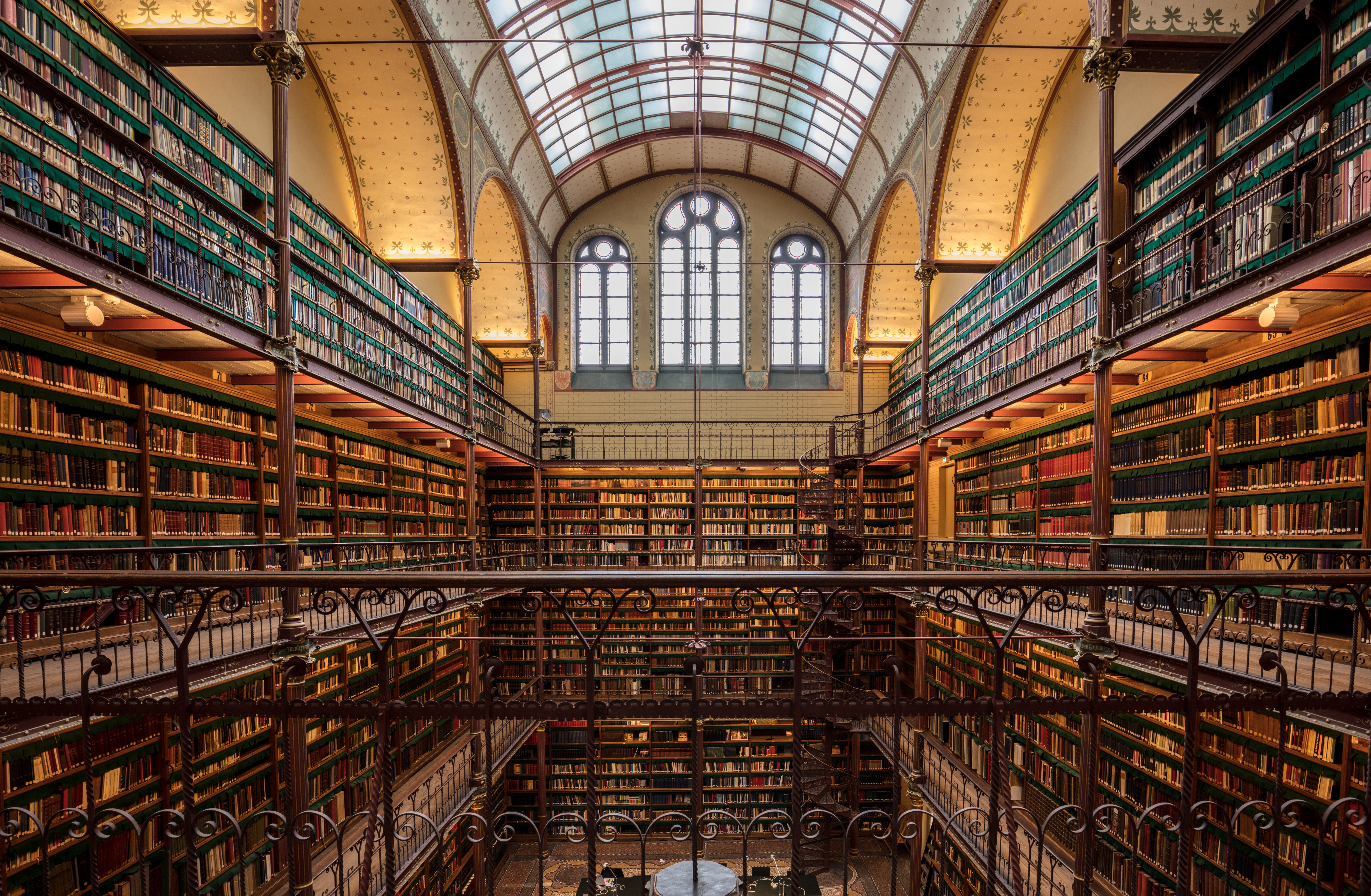 Here is a photograph taken from the library inside the Rijks Museum. Located in Amsterdam, Netherlands.